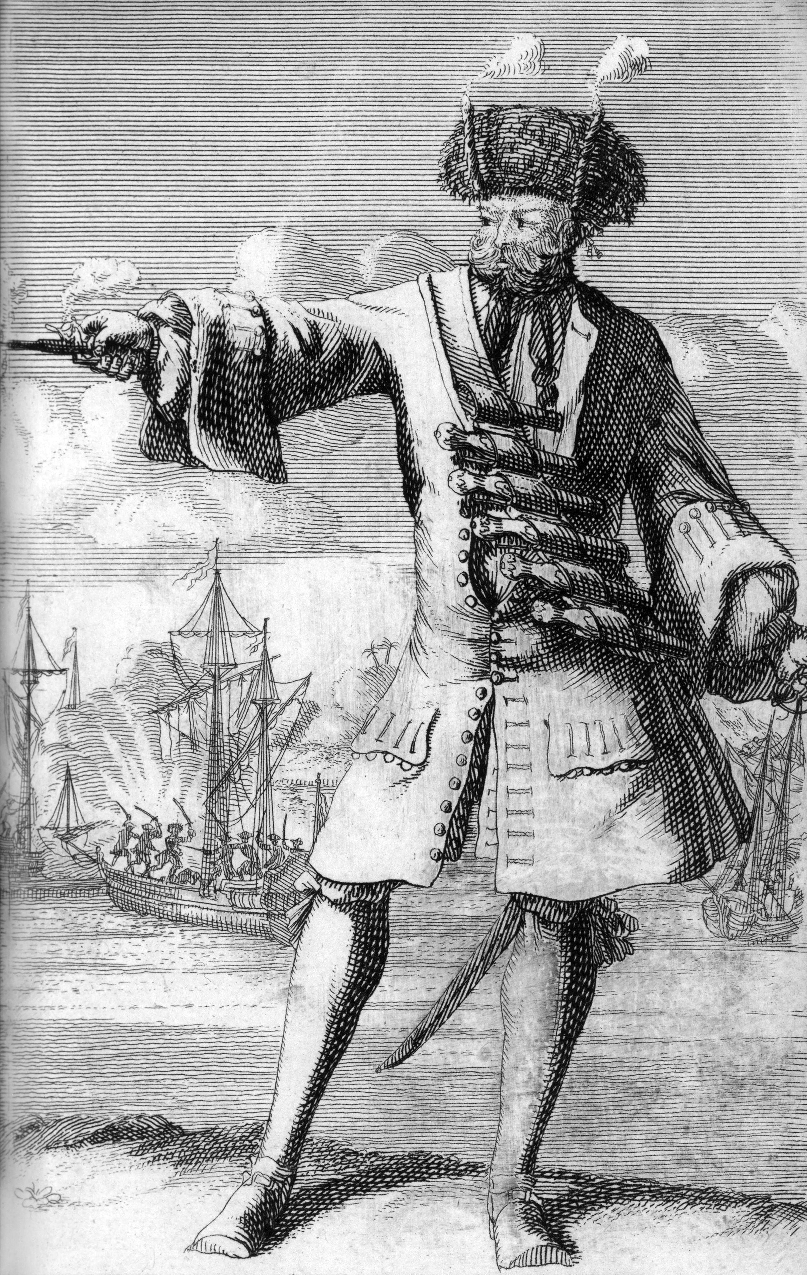 Edward Thatch aka Blackbeard: this engraving was published in the Dutch version of Charles Johnson's A General History of the Pyrates—Historie der engelsche zee-roovers ... door Capiteyn Charles Johnson (1725), Amsterdam: Hermanus Uytwerf